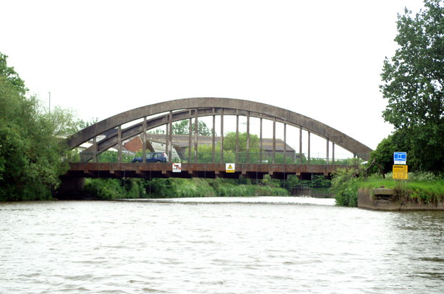 River Avon, Feeder Road Bridge - The river heads under the bridge to Netham Weir. Boats head right for Netham Lock and the Feeder Canal.